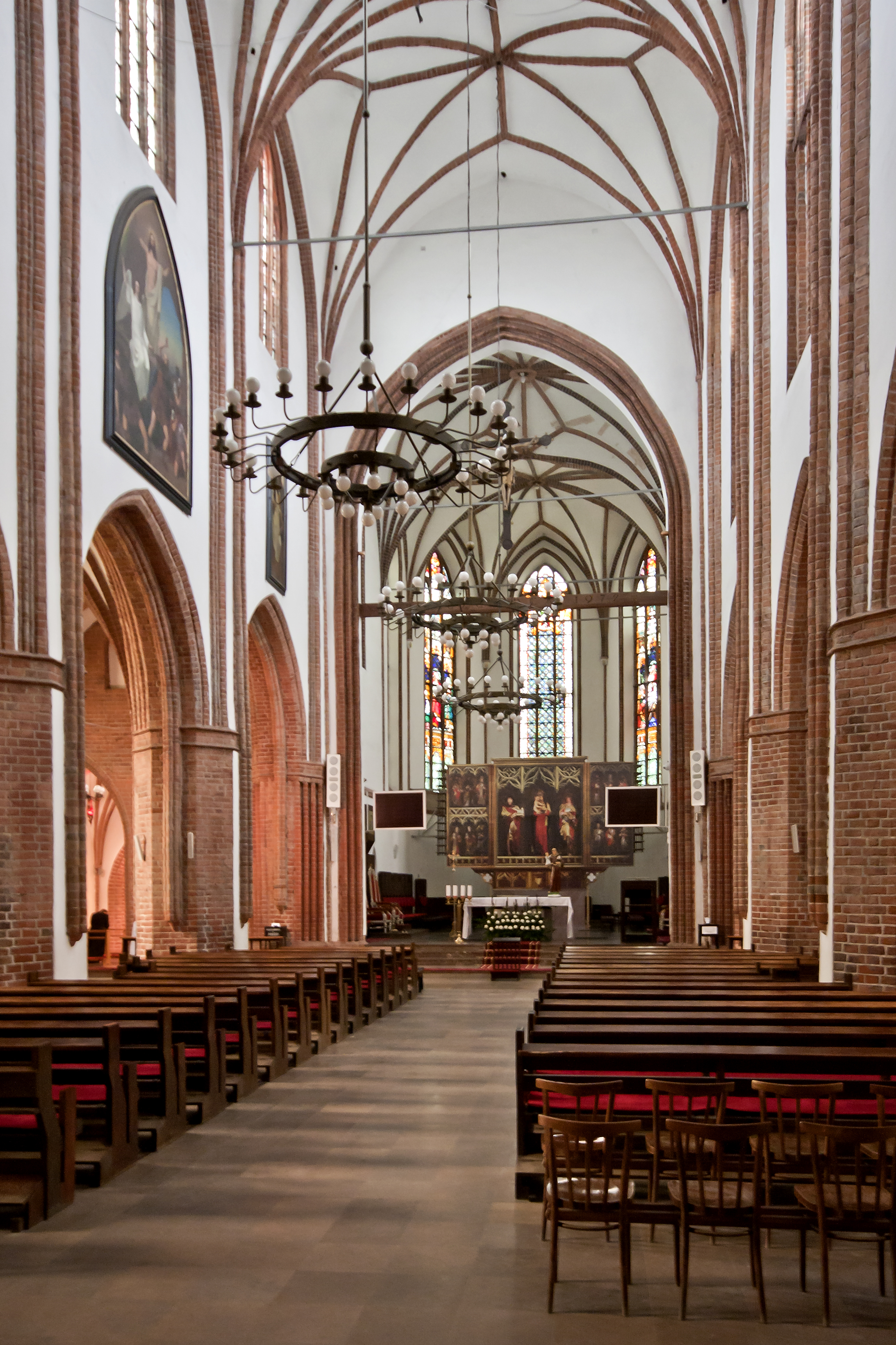 Interior of the Cathedral in Koszalin, Poland.